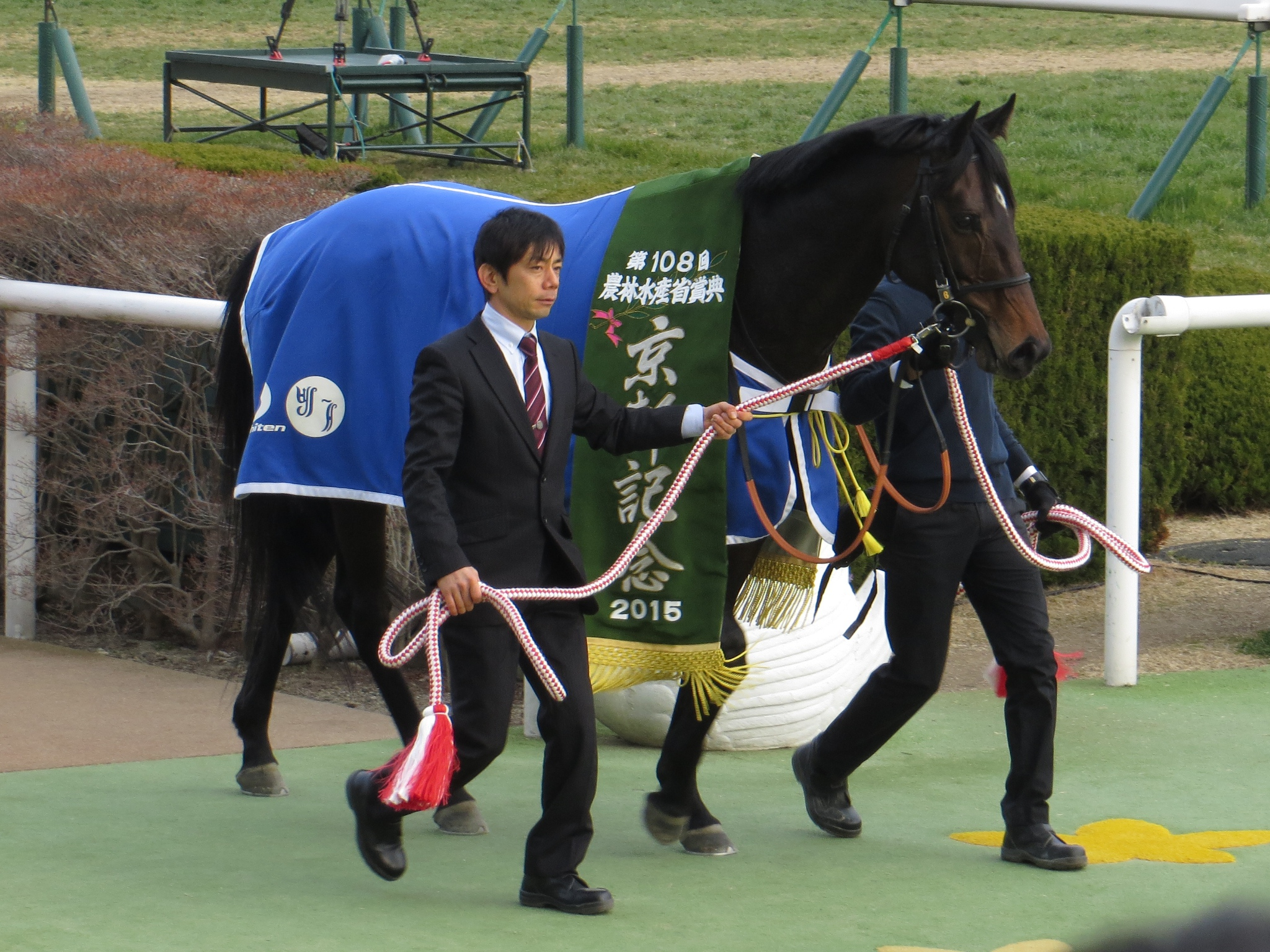 Lovely Day (Racehorse of Japan)